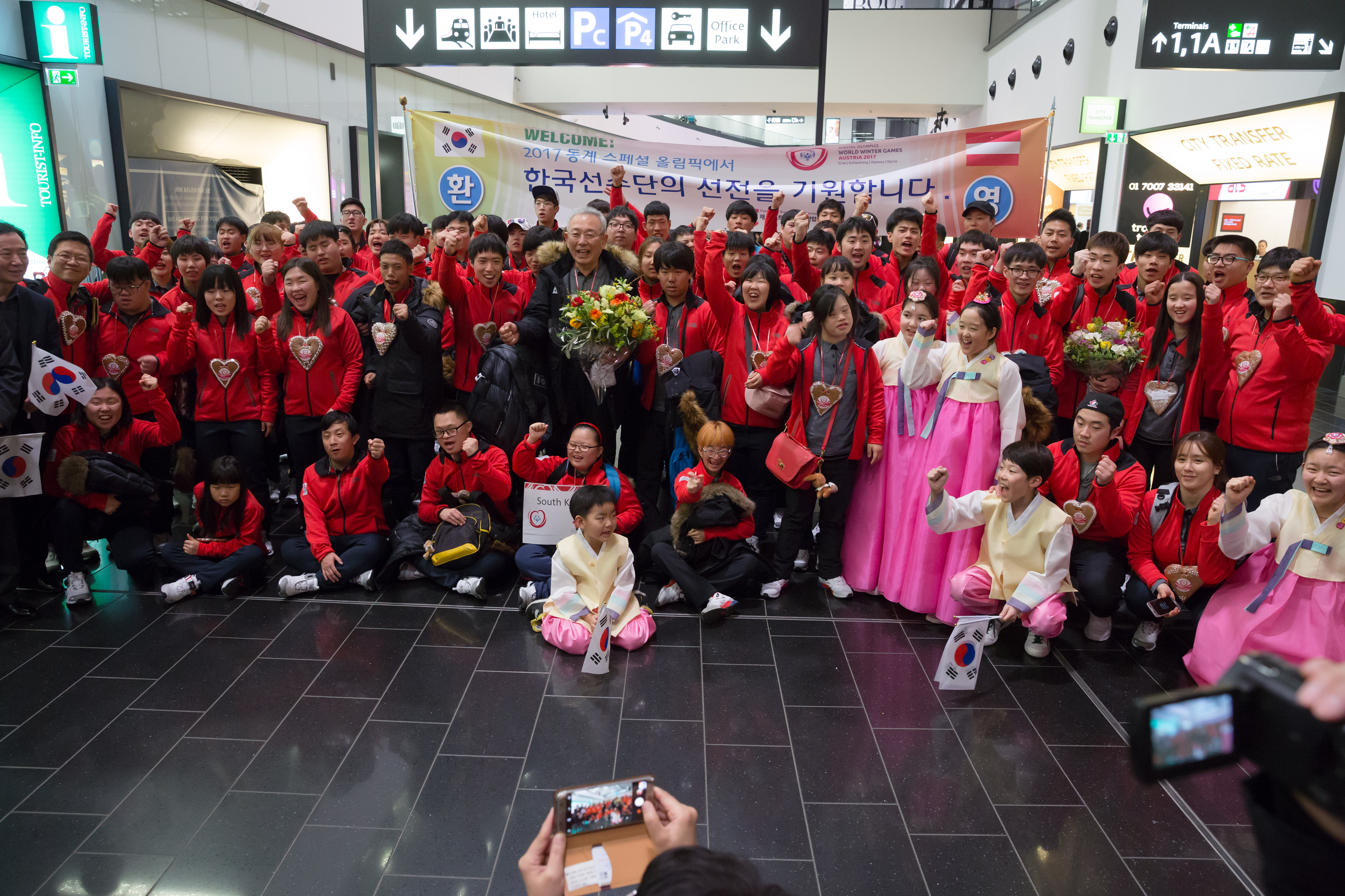 Arrival and greeting of the delegation from South Korea for the 2017 Special Olympics World Winter Games at Vienna International Airport.